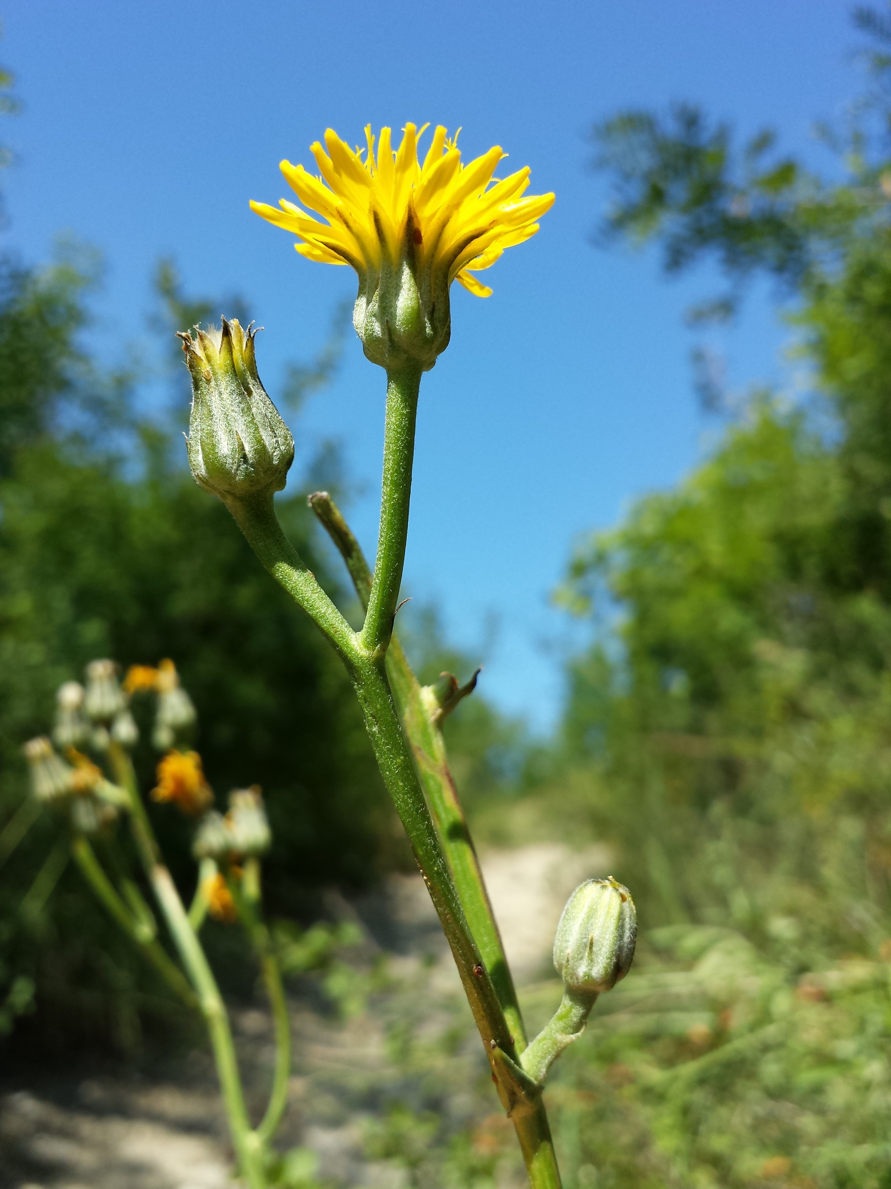 Florescence Taxon: Crepis pannonica (sensu Fischer et al. EfÖLS 2008 ISBN 978-3-85474-187-9) Location: Bisamberg west slope, district Korneuburg, Lower Austria - ca. 240 m a.s.l. Habitat: wayside/shrubbery